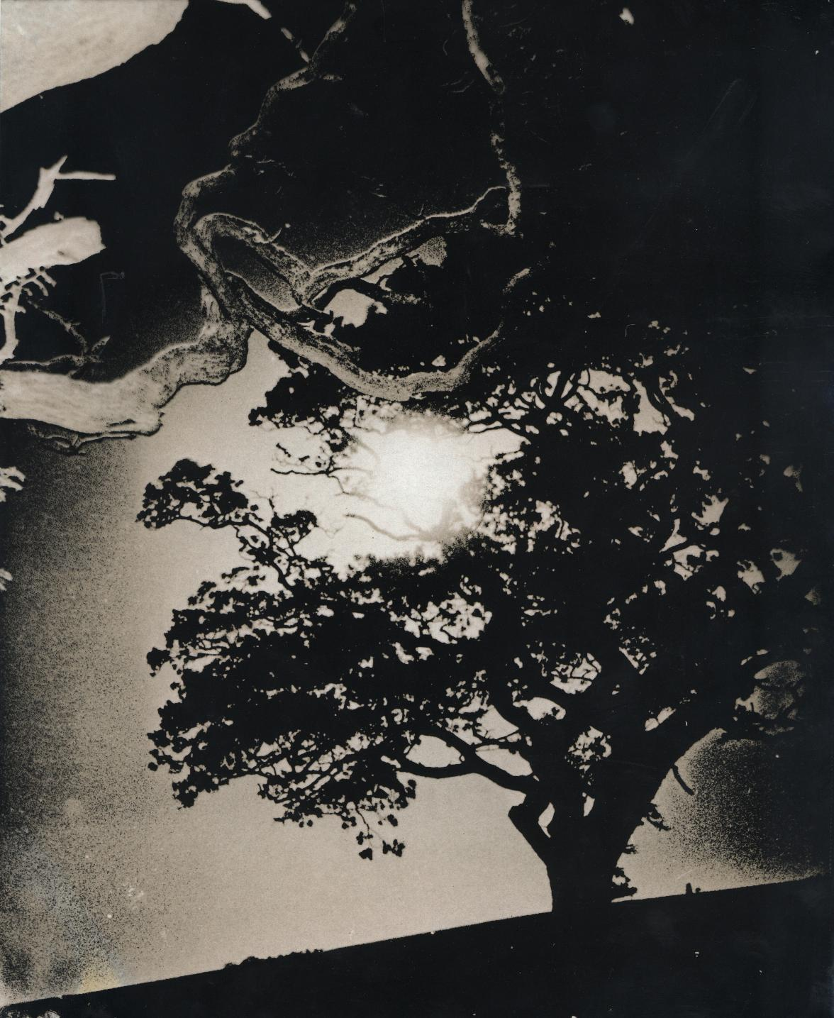 Taken while waiting for a ghost on the Isle of Wight